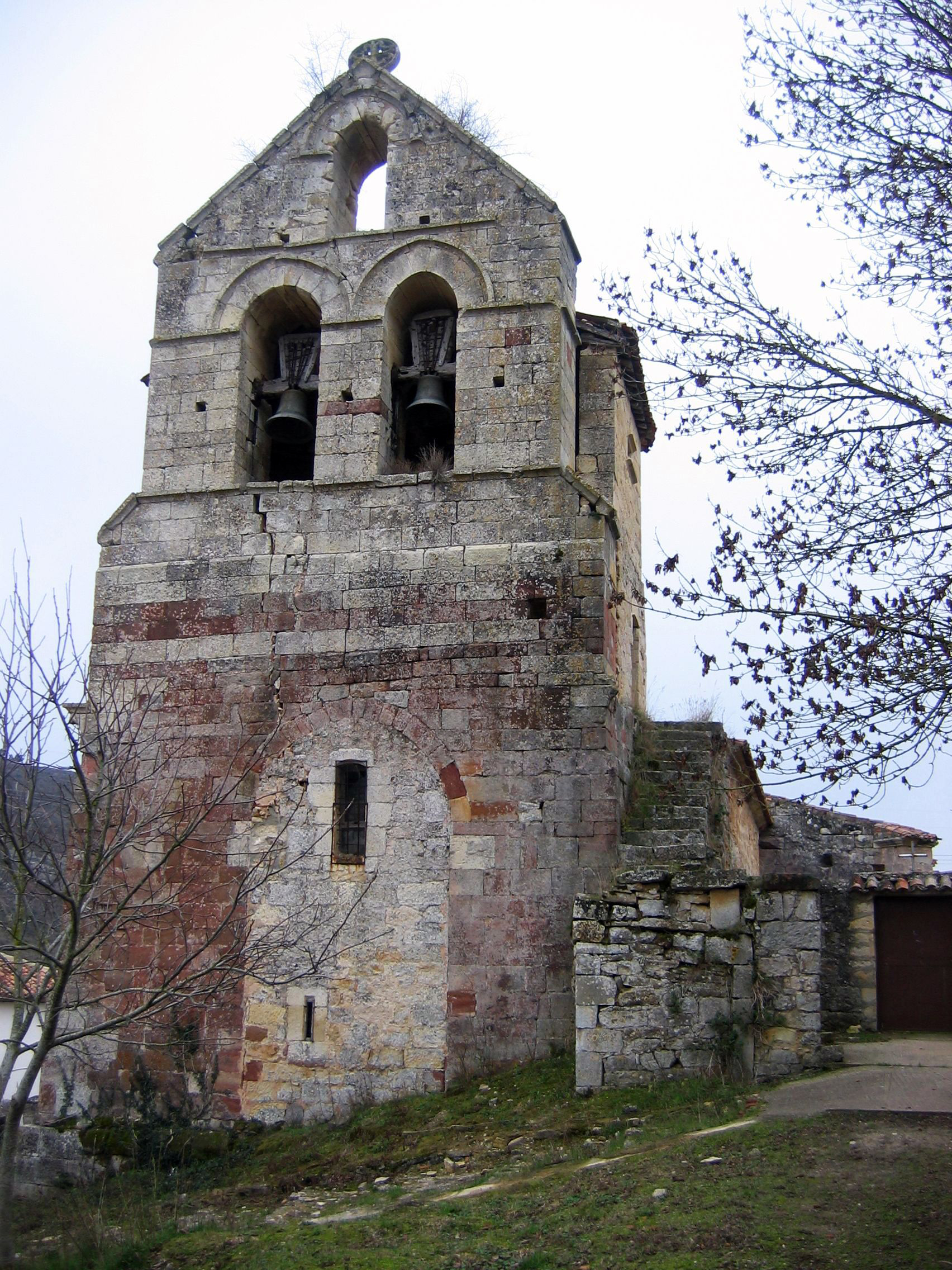 Church of Saint Peter in Barrio de San Pedro, Becerril del Carpio (Palencia, Castile and León). Height highlights a bulrush on the gable, in which a visible inscription under windows read "ERA MCCC FIZO" (1262), illustrative example of the persistence of Romanesque forms until well entry half of the 13th century. This bulrush has three levels: the lower blanket the primitive cover which gave way to the Church from the gable - the second level has two 10AD embrasures and imposta nacelada and the third with auction to sprocket, is drilled by a single tronera with 10AD, reduced imposta. Topped with a magnificent Fleurdelisé cross inscribed within a circle with bayonets stone. On both sides of the Bulrush four canecillos carry vegetable motifs with a single sheet that is rolled up at the top. Canecillos appearing on the main façade tardorrománico umbrella-shaped of birth it and ship with auction cilindrico bow. Any include small decorations marked difficult to interpret.